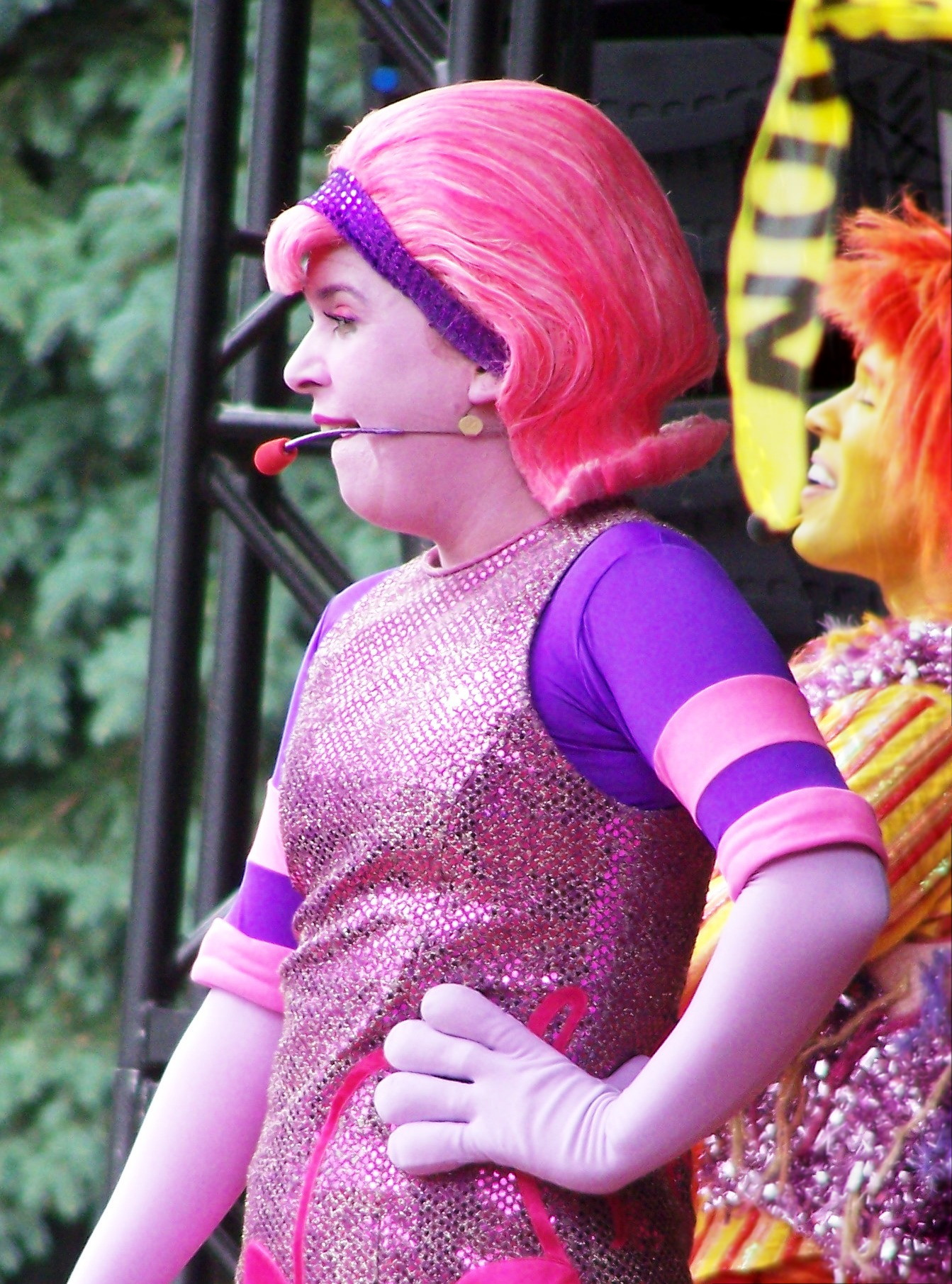 The The Doodlebops performed at the Coca-Cola stage at the 2007 Calgary Stampede. In the foreground is the character Deedee Doodle.